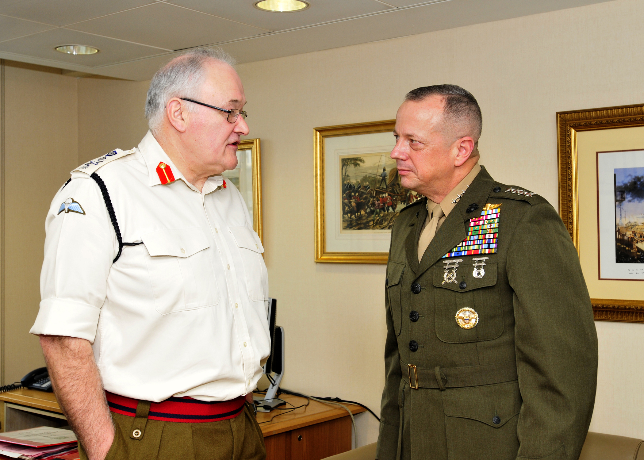 London – International Security Assistance Force commander Gen. John R. Allen meets with Chief of General Staff British Army General Sir Peter Wall in London, Jan. 17. The two discussed the continuing commitment of the British armed forces to the current Afghanistan campaign. (U.S. Army Photo/ Master Sgt. Kap Kim) (released)